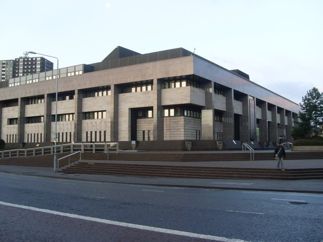 Glasgow Sheriff Court Just south of the Clyde, off Gorbals Street.